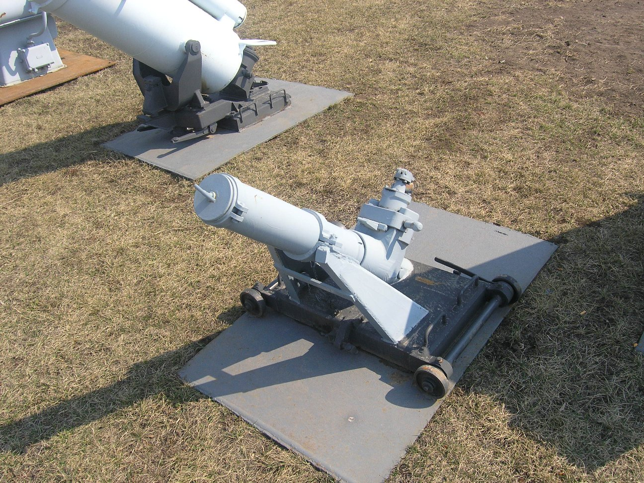 BMB-1 depth charge thrower in Technical museum Togliatti